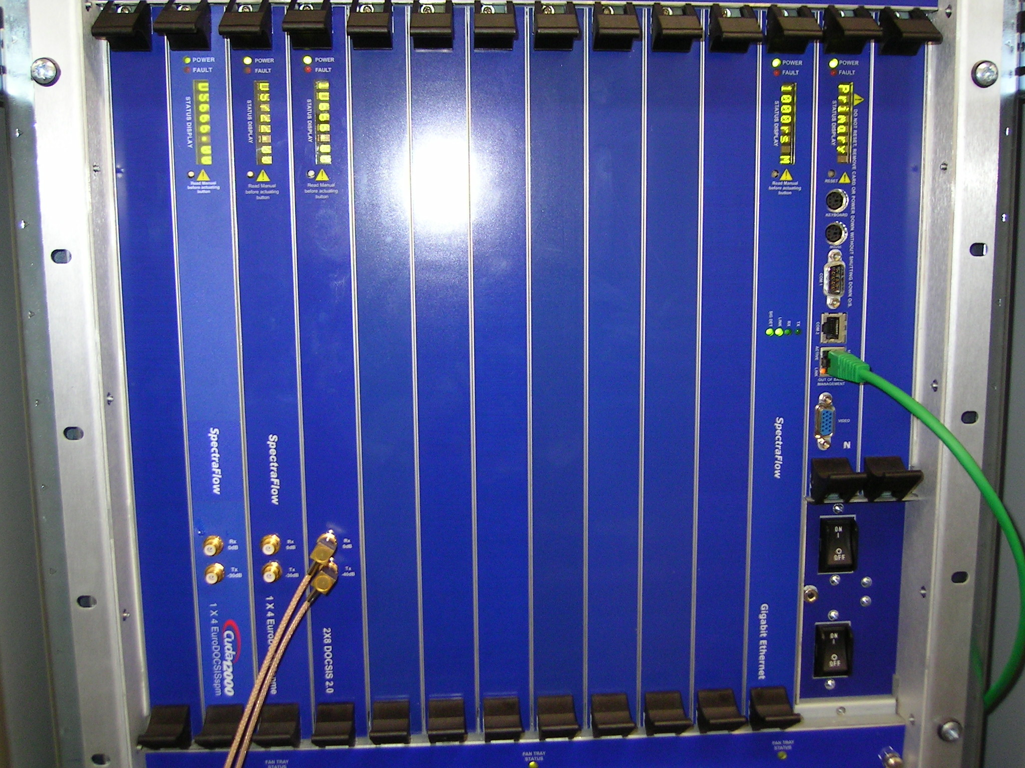 CMTS_frontside